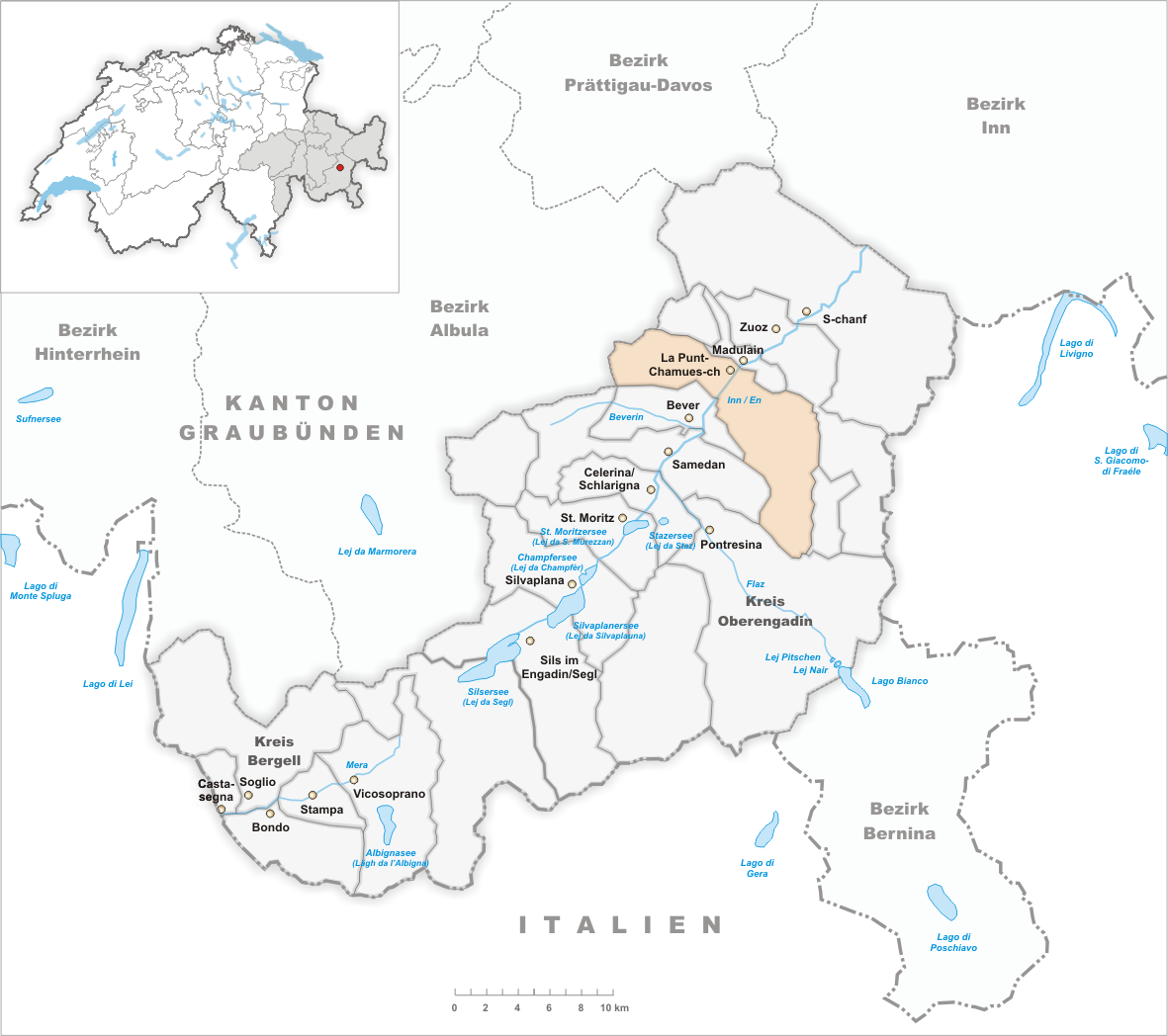 Municipality La Punt-Chamues-ch